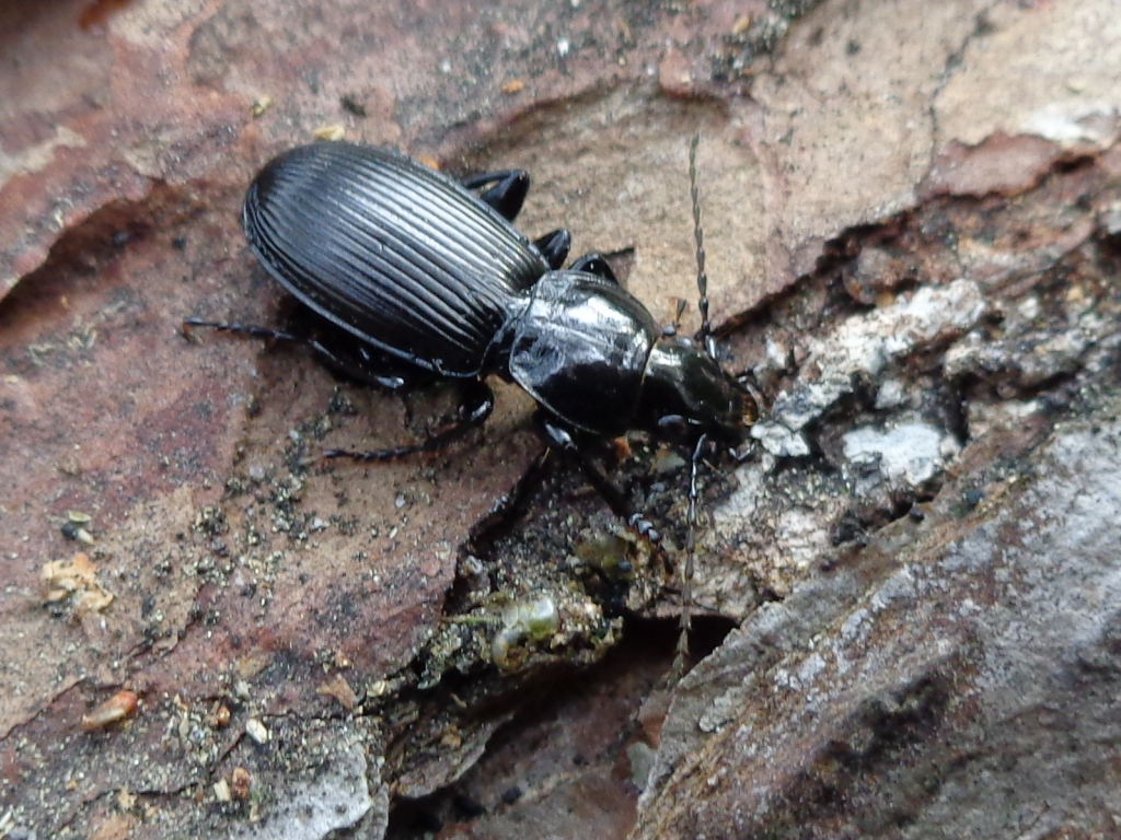 Pterostichus niger. Found in Lilaste area near Rīga town, Latvia